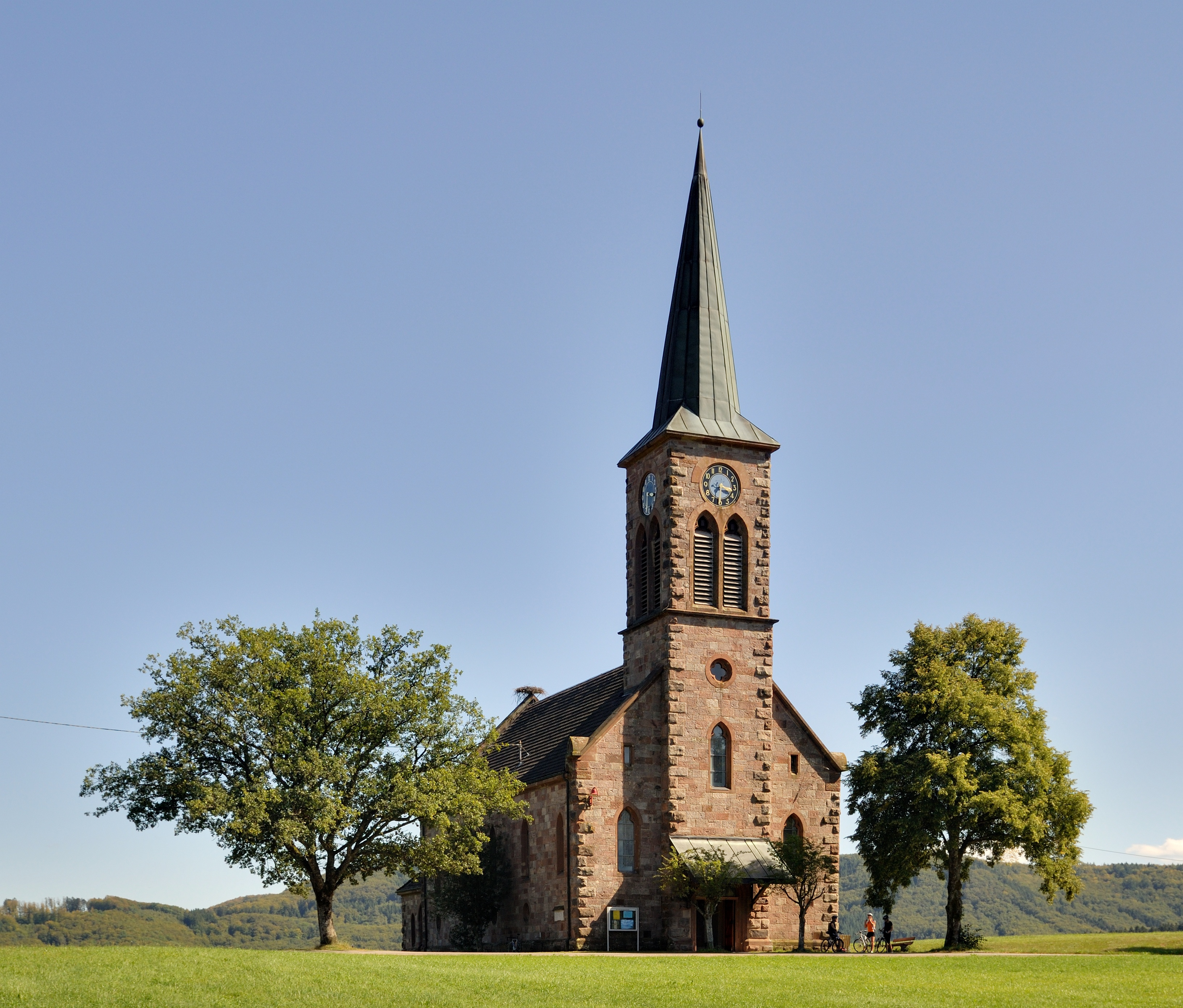 Steinen-Hofen: Protestant Church